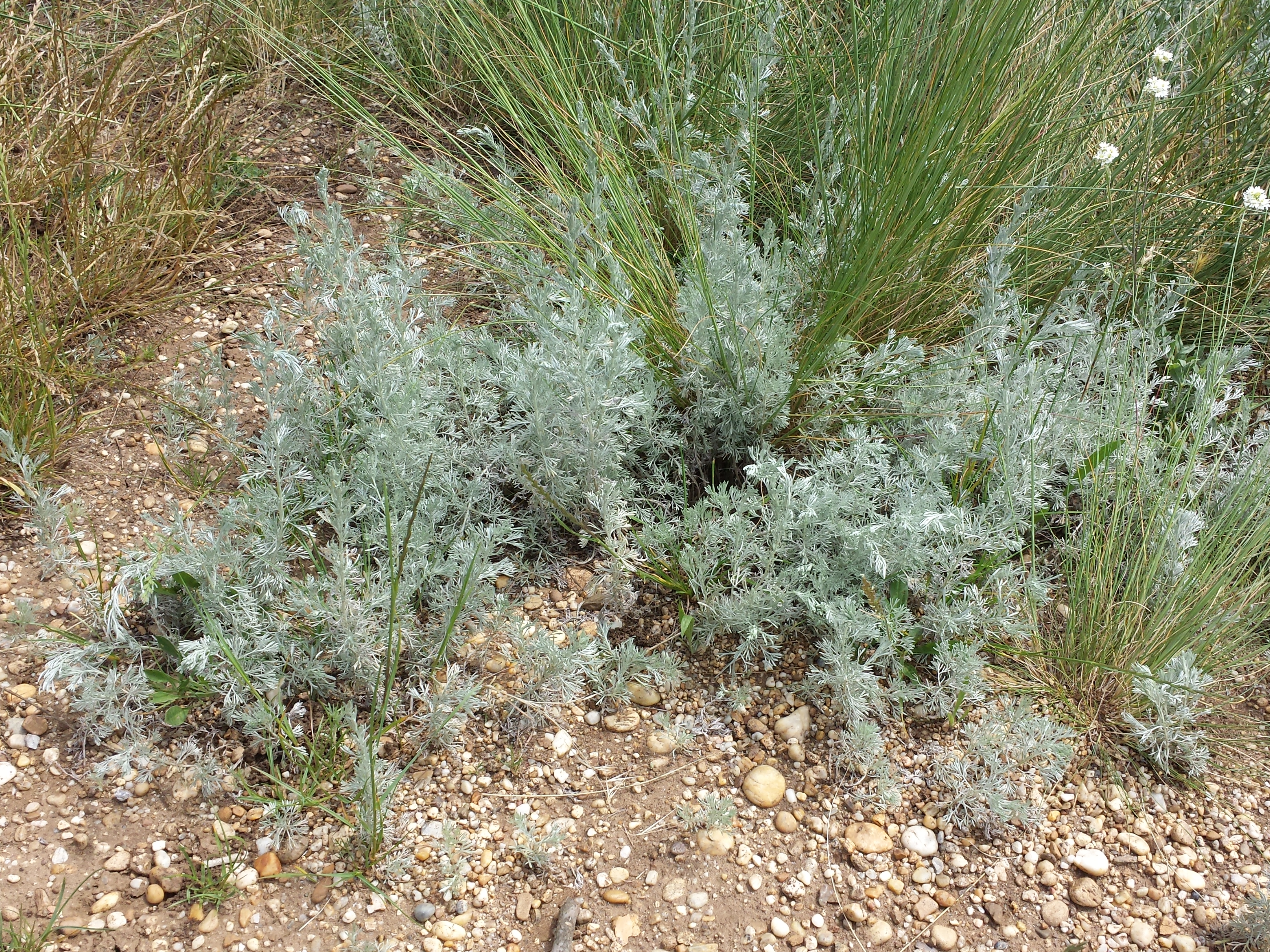 Habitus Taxonym: Artemisia austriaca ss Fischer et al. EfÖLS 2008 ISBN 978-3-85474-187-9 Location: Kalvarienberg in Neusiedl am See, district Neusiedl am See, Burgenland, Austria - ca. 160 m a.s.l. Habitat: dry grassland